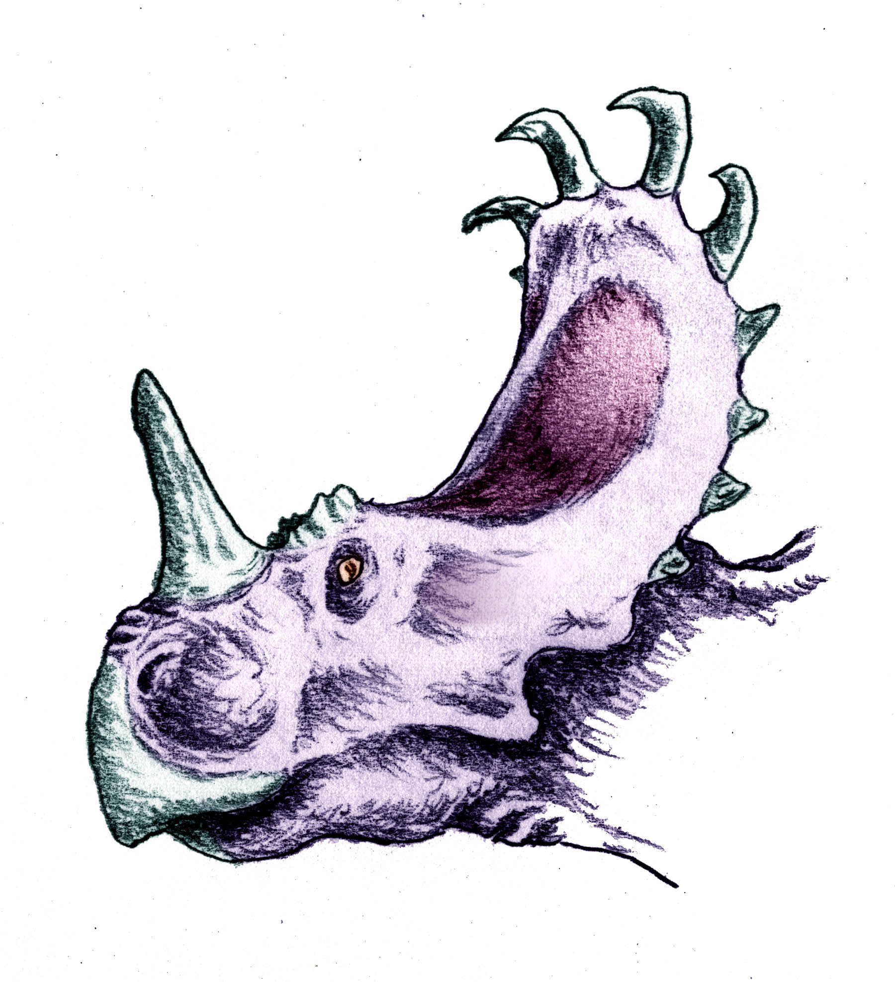 Sinoceratops, a ceratopsian